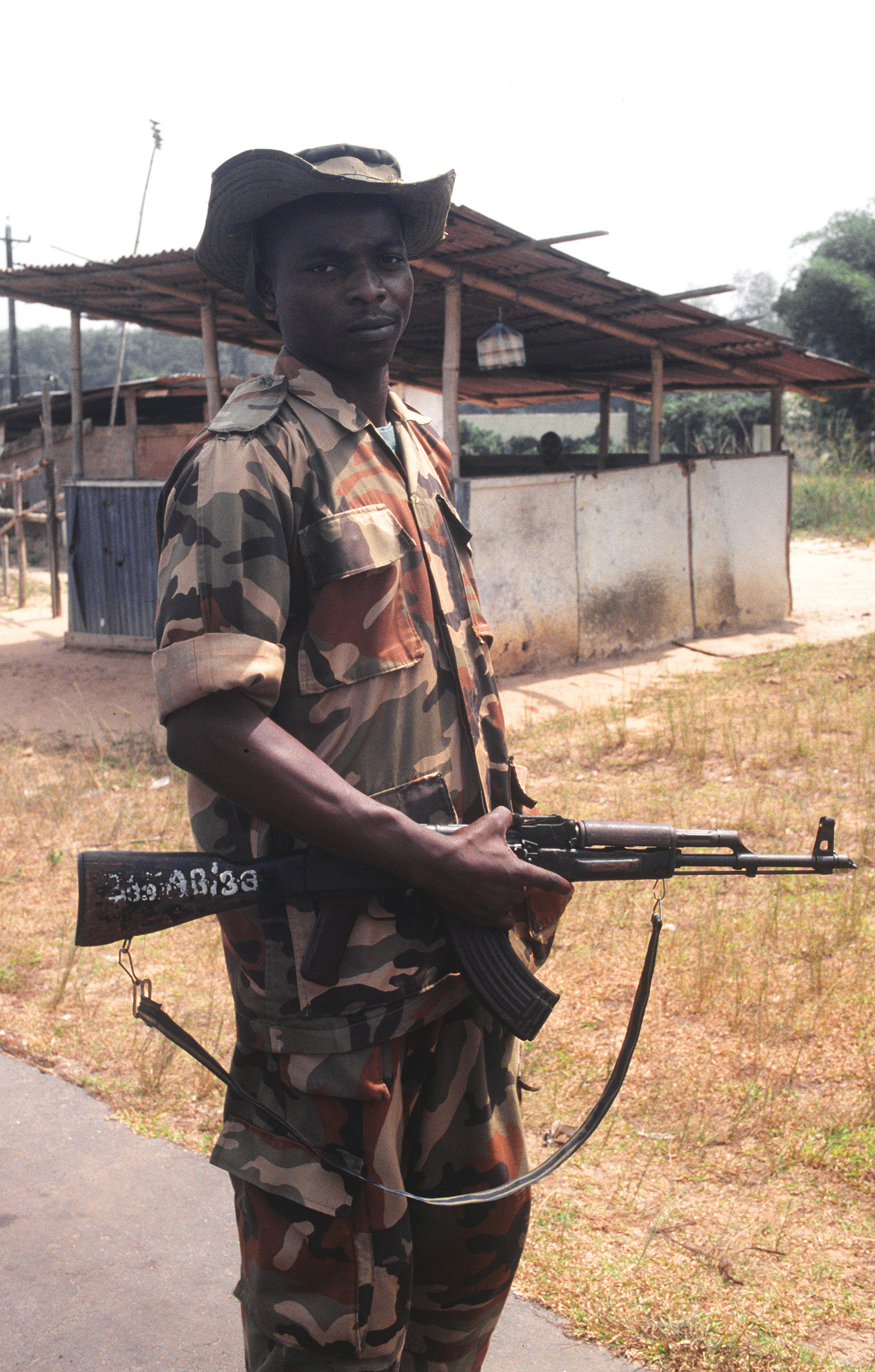 Nigerian Army soldier, part of the Economic Community Military Observation Group (ECOMOG), mans one of the six security checkpoints on the 36 mile road leading from Robert's International Airport to Monrovia, Liberia. The Nigerians were replaced by other ECOMOG nations during Operation Assured Lift, a 17 day United States airlift and support mission assisting West African states deploying more than 1100 troops to Liberia as part of the region's ongoing peacekeeping force.